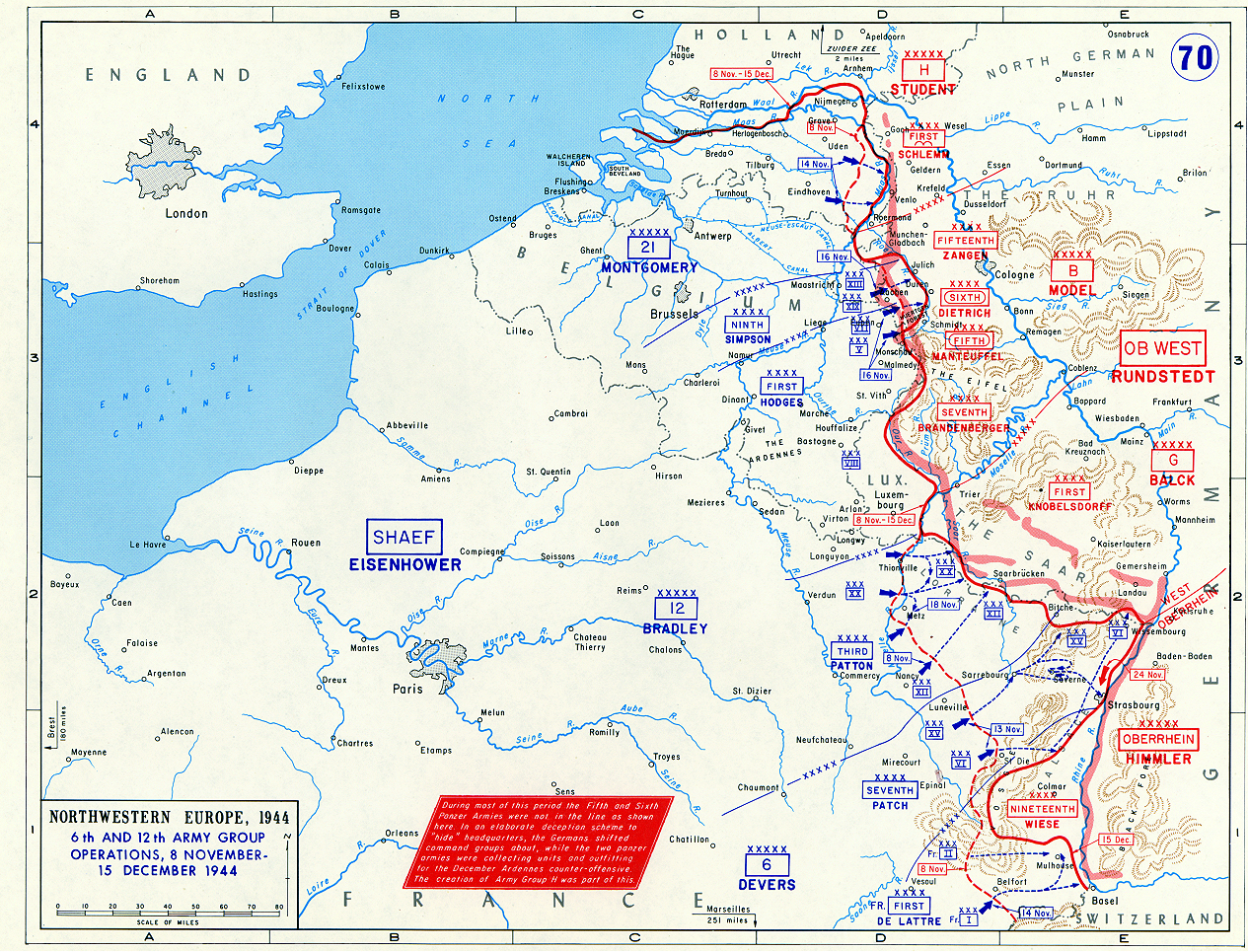 Northwest Europe. November-December 1944